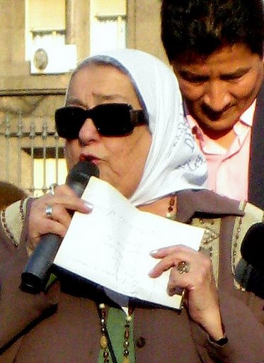 Argentinian activist Hebe de Bonafini in Plaza de Mayo, Buenos Aires, Argentina.